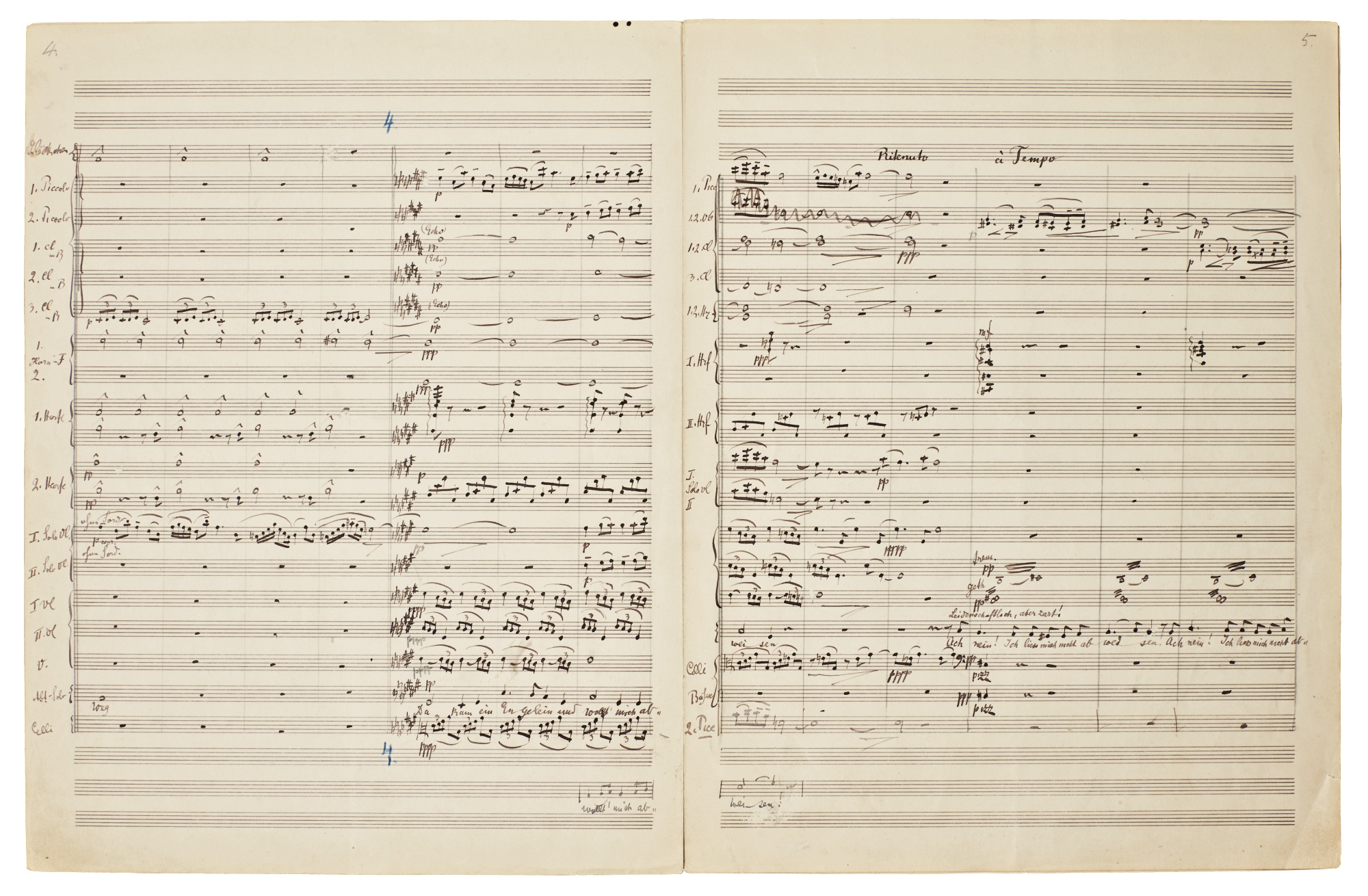 Pages from the manuscript of Mahler's Symphony No. 2. Sold at Sotheby's in November 2016.